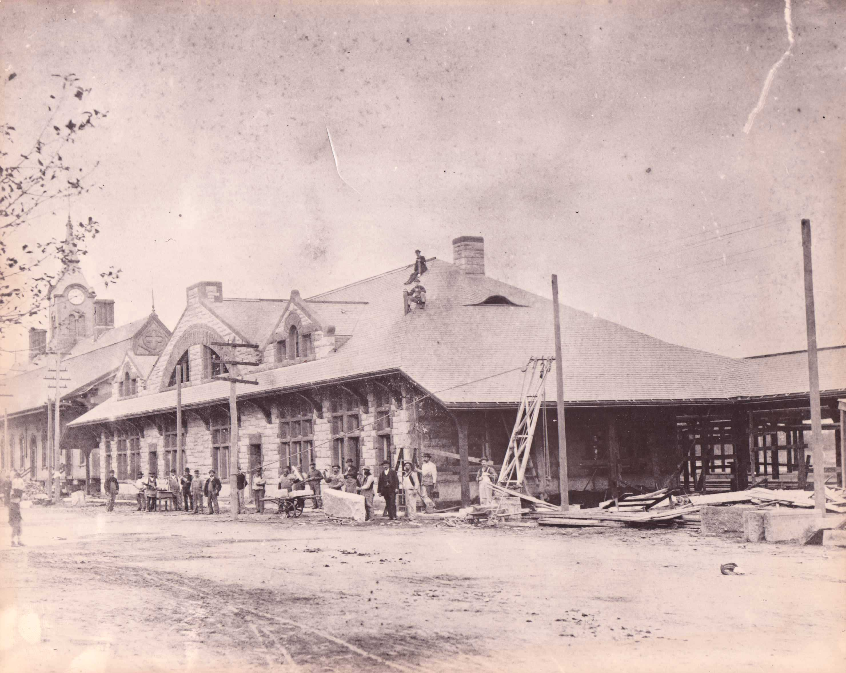 The H.H. Richardson depot at South Framingham under construction in 1885. The 1848 depot is visible behind.